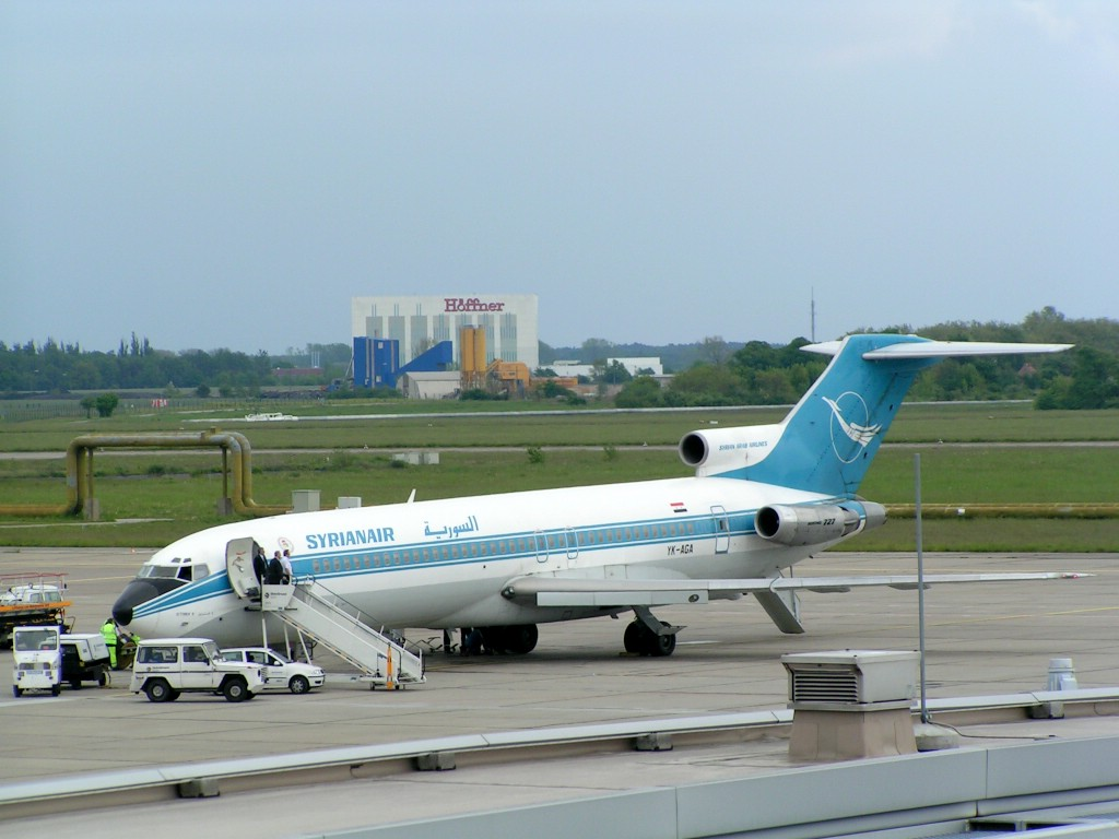 Syrian Arab Airlines - Boeing 727 at Berlin-Schönefeld Source: taken by David Herrmann, 22. Mai 2005